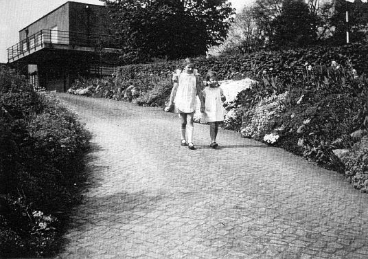 Photo of Bärbel und Christine Wolf (b. 1926) walking in the garden of Villa Wolf in Guben.